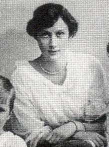 Princess Margaretha of Denmark, née of Sweden a daughter of Prince Carl